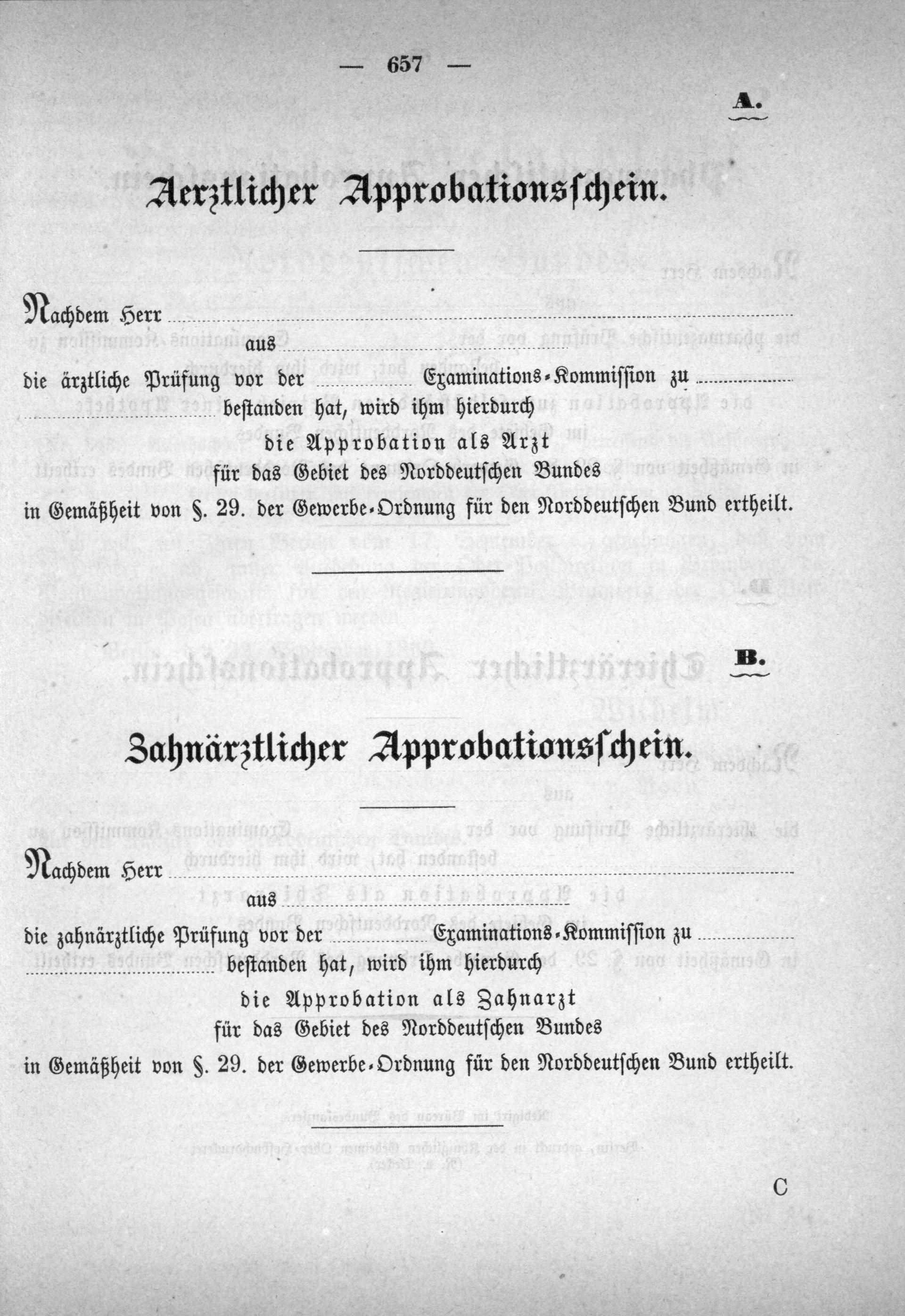 Scan from the Federal Law Gazette of the Northern-German Federation, 1869, copy-print 1891